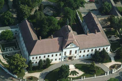 Palace - Hatvan - Hungary - Europe